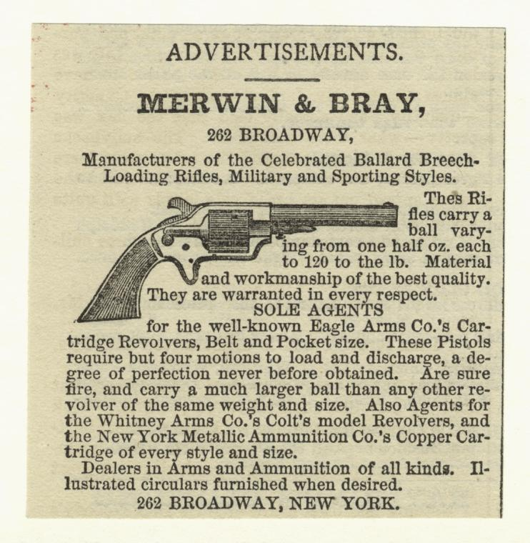 TITLE: Merwin & Bray, 262 Broadway. Content: Printed on image: "Sole agents for the well-known Eagle Arms Co.'s cartridge revolvers, belt and pocket size." "Also agents for the Whitney Arms Co.'s Colt's model revolver